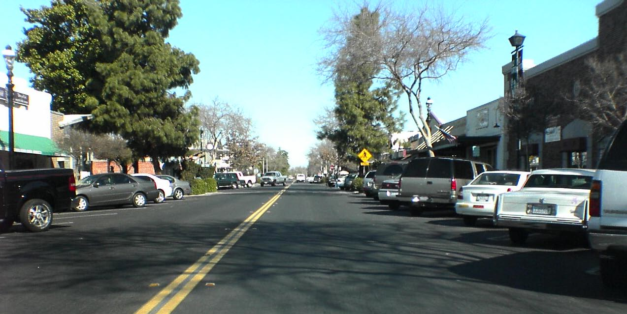 Photo taken on Pollasky Avenue, Clovis, California on February 16, 2006. Photographer releases all rights worldwide.